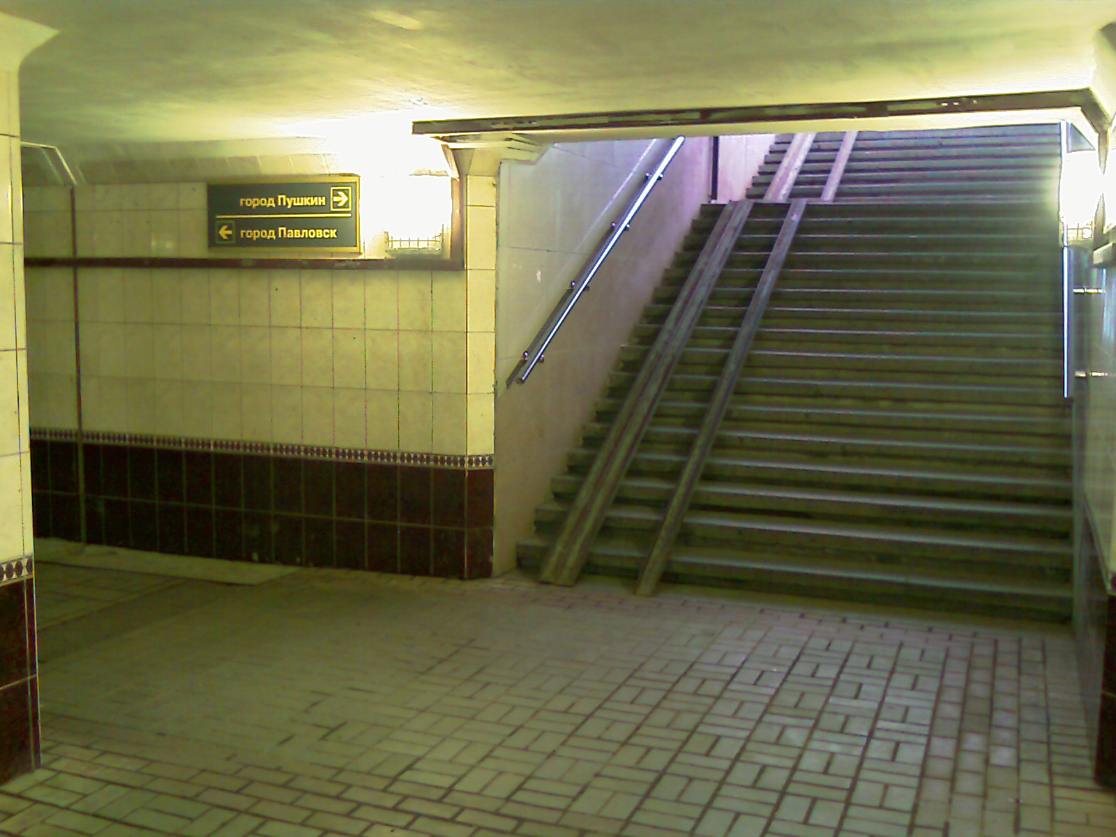 Pushkin and Pavlovsk station exits